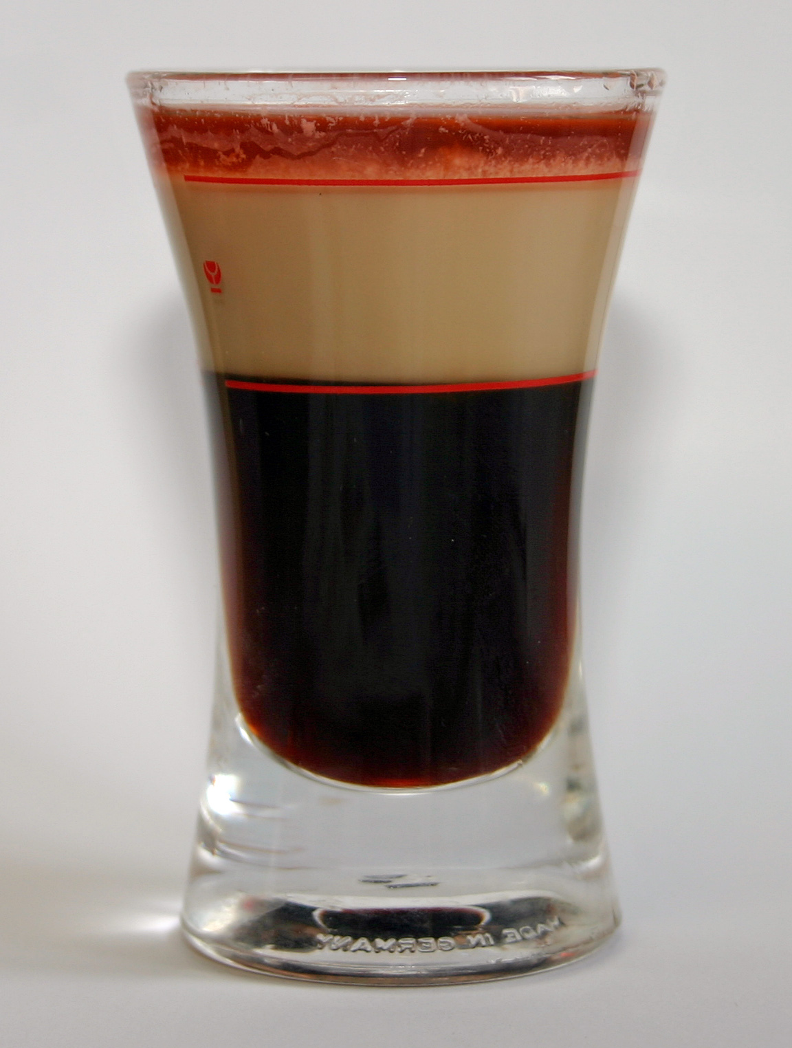 Cocktail Shot B52 with STROH 80